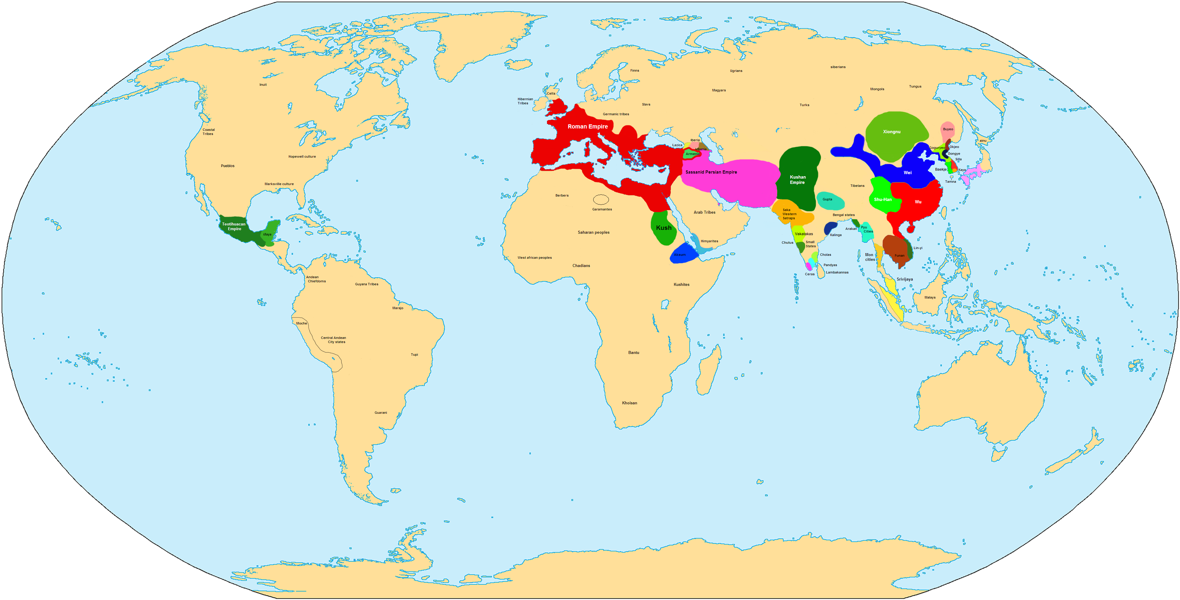 Map of main world civilizations in 250 CE/AD